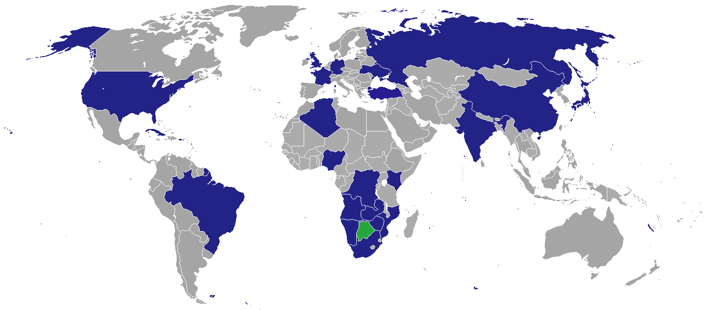 Map of diplomatic missions in Botswana. The green country is Botswana. The blue countries have embassies or high commissions in Botswana. The yellow countries have embassies elsewhere but have honorary consulates in Botswana. The orange countries have only non-resident embassies, located outside of Botswana